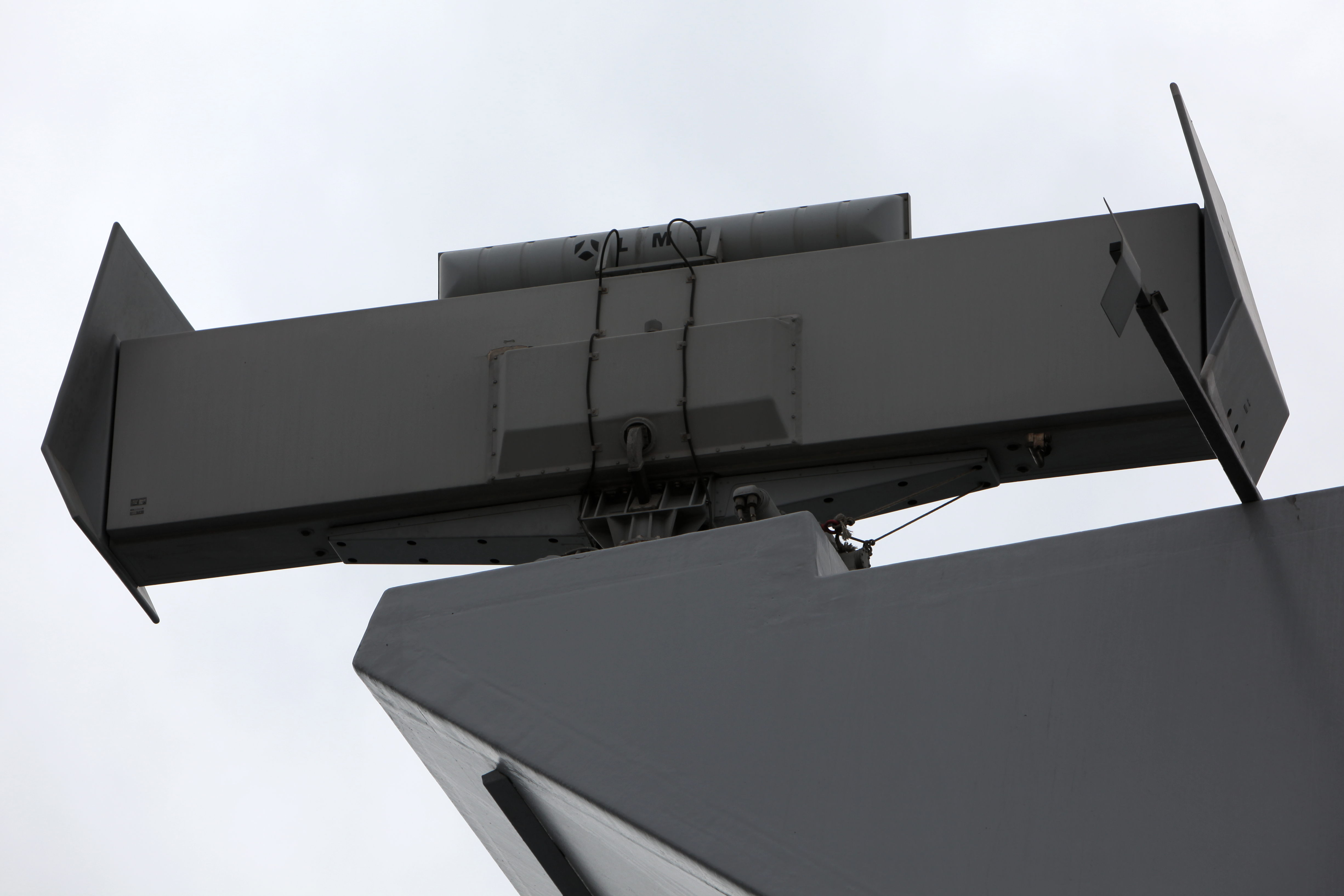 The air/surface DRBV 15C radar of the stealth frigate Surcouf.